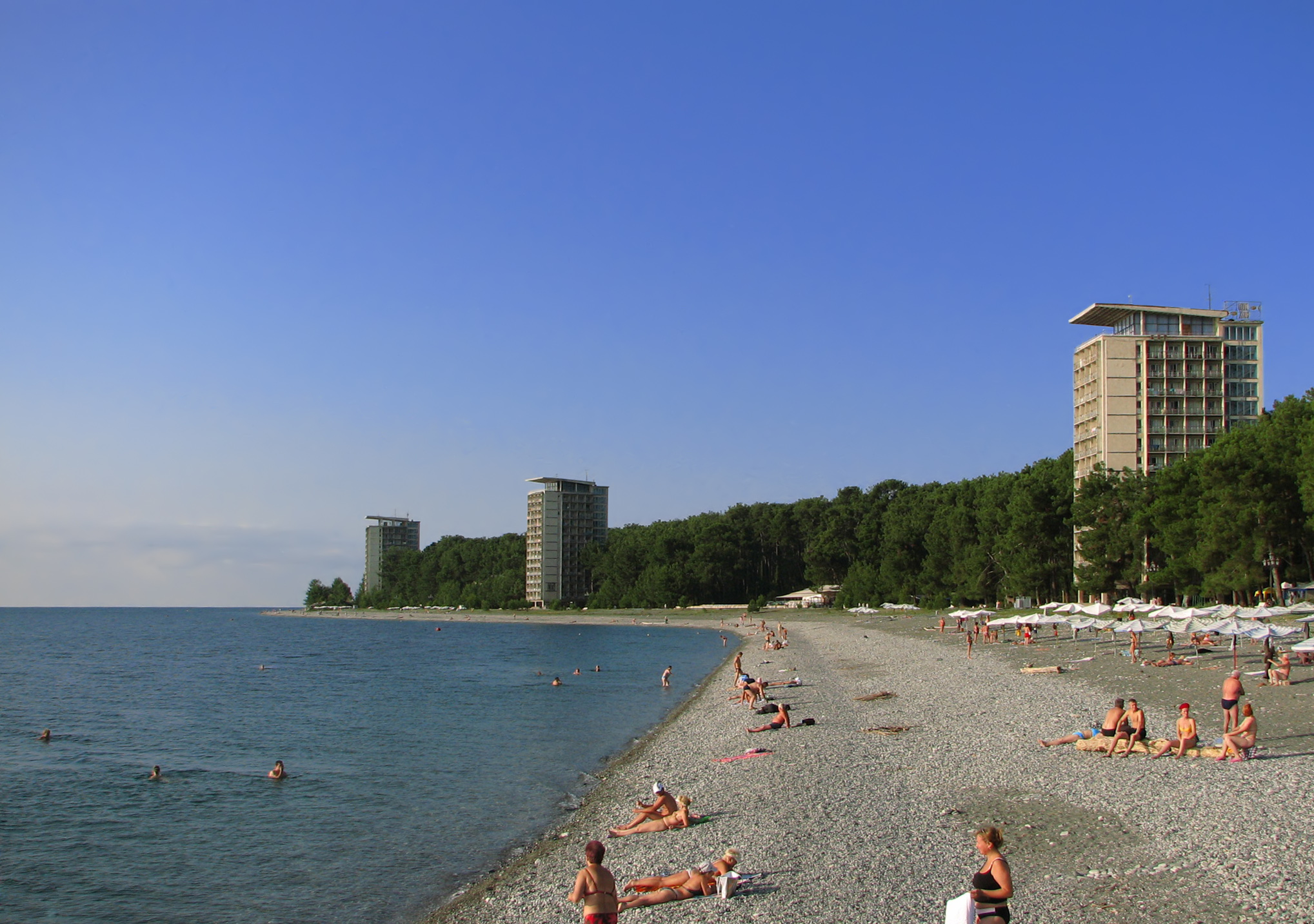 Pitsunda beach (Abkhazia)